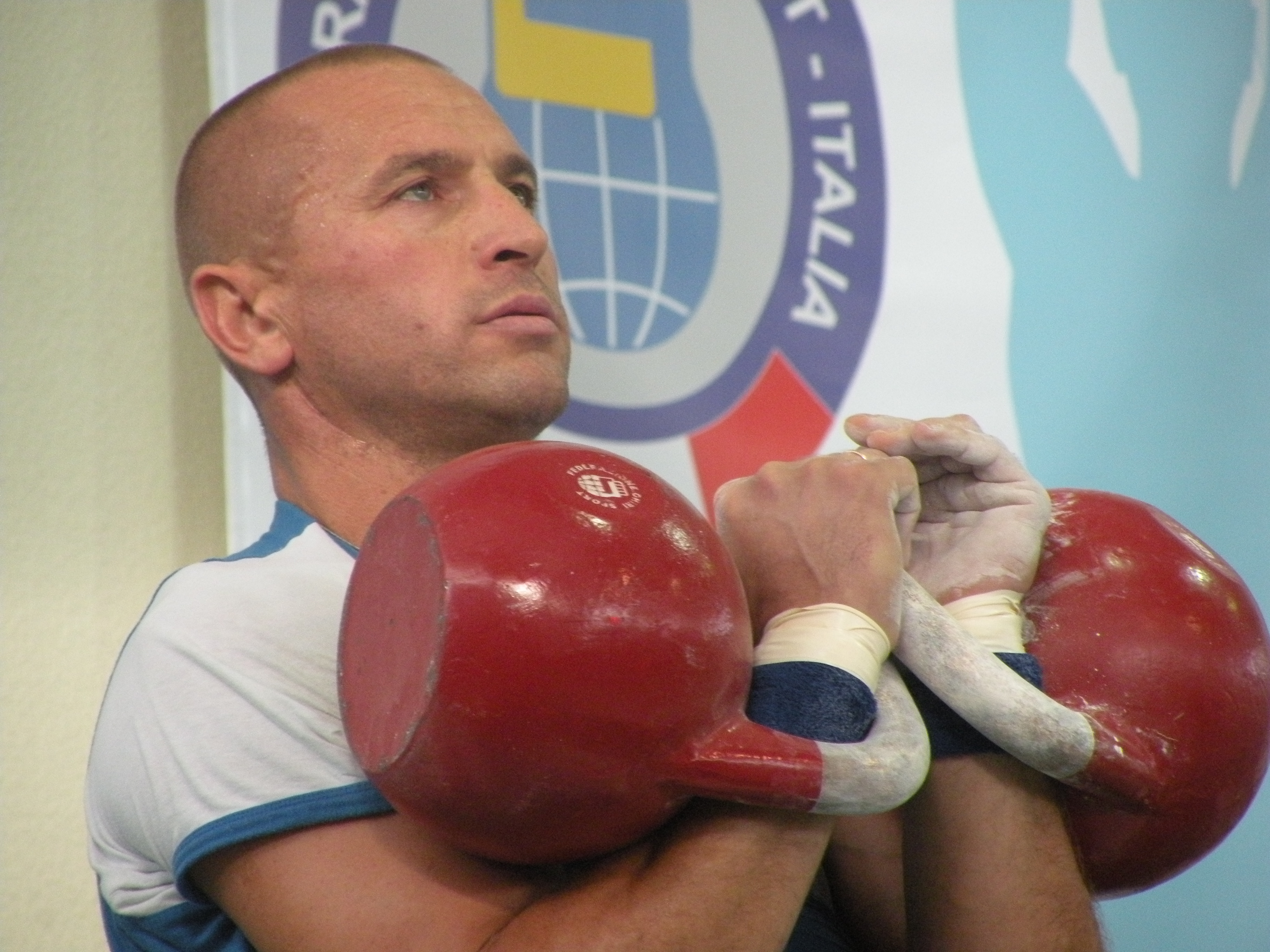 Competizione Kettlebell Lifting